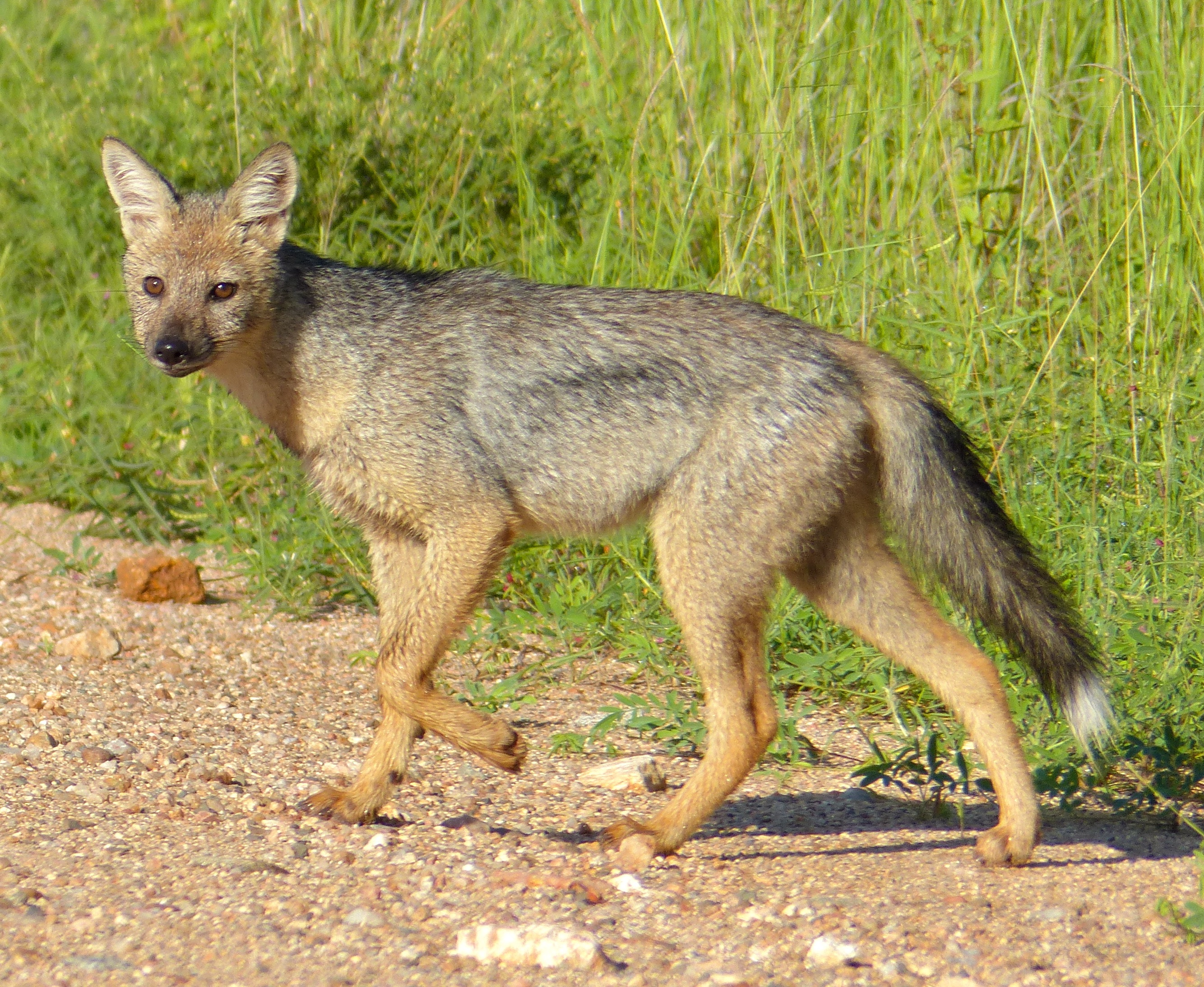 S131 Road West of Letaba, Kruger NP, SOUTH AFRICA